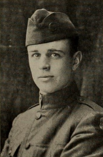 Joseph A. McNamara (Vermont attorney) in his World War I uniform